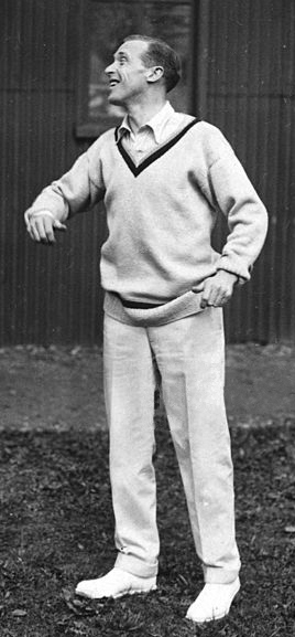 29th April 1926: Australia v Minor Counties XI at Holyport, Maidenhead. M Falcon.